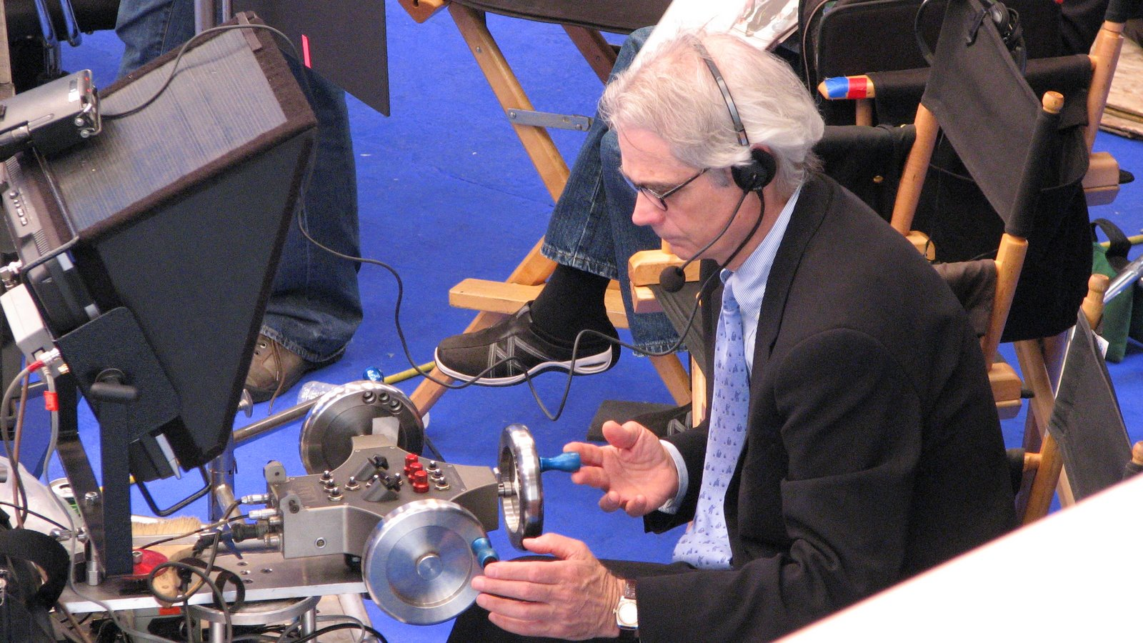 Caleb Deschanel on a set for The Spiderwick Chronicles (2008)